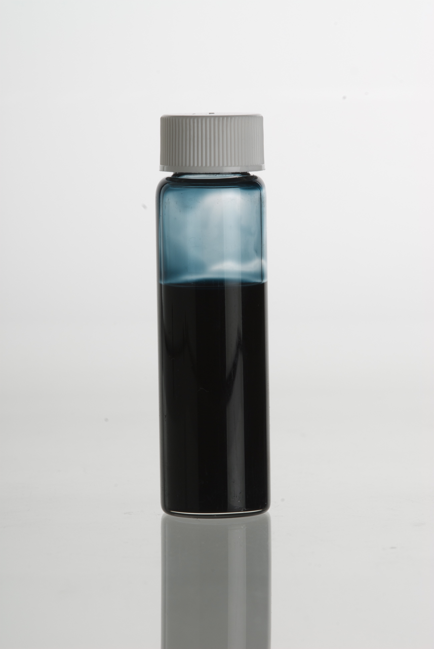 Blue Tansy (Tanacetum annuum) Essential Oil in clear glass vial